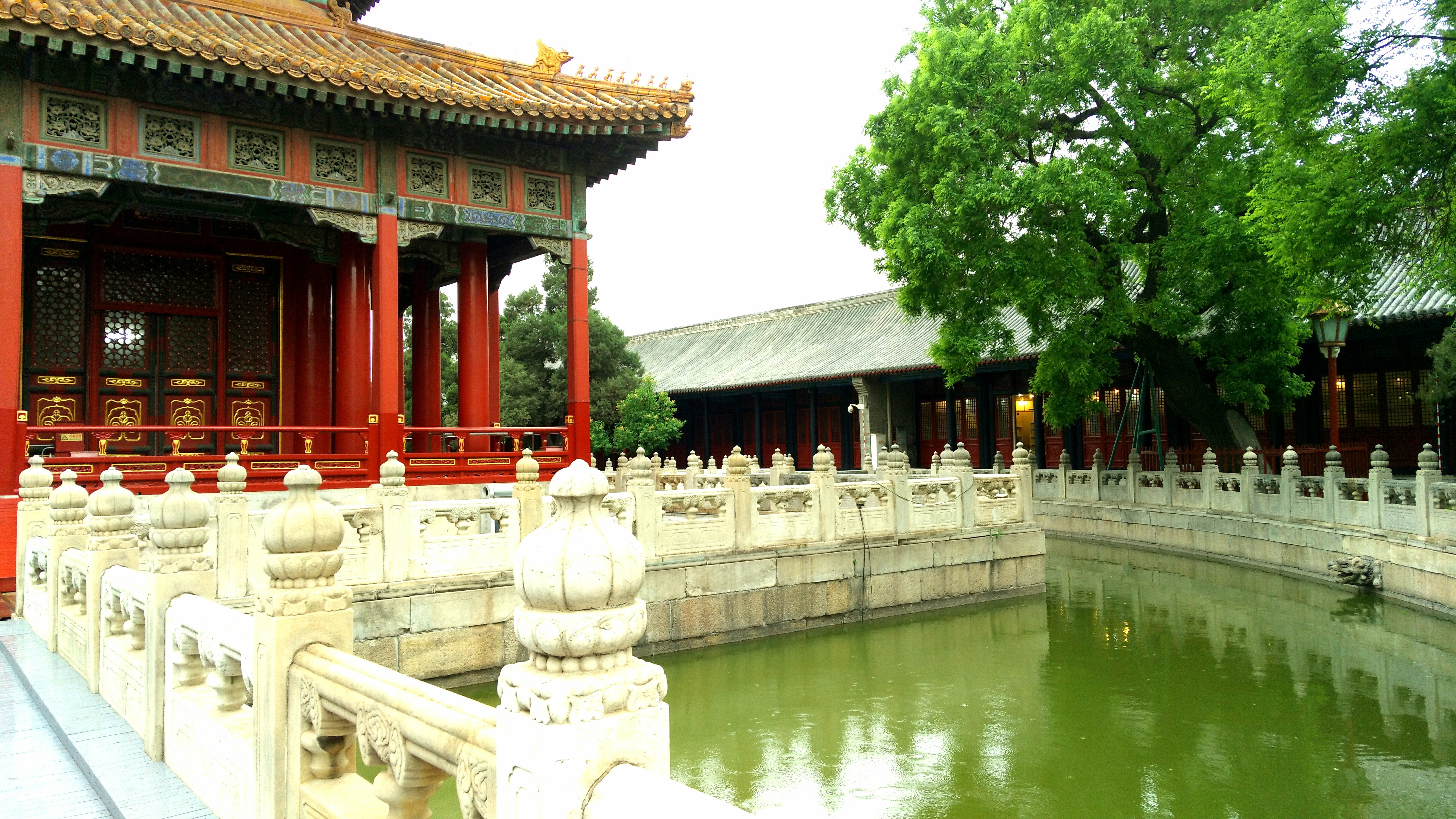 Moat and Lecture Hall at Imperial College, Beijing, China